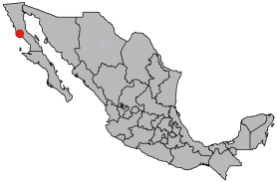 Location map of San Quintín, México.